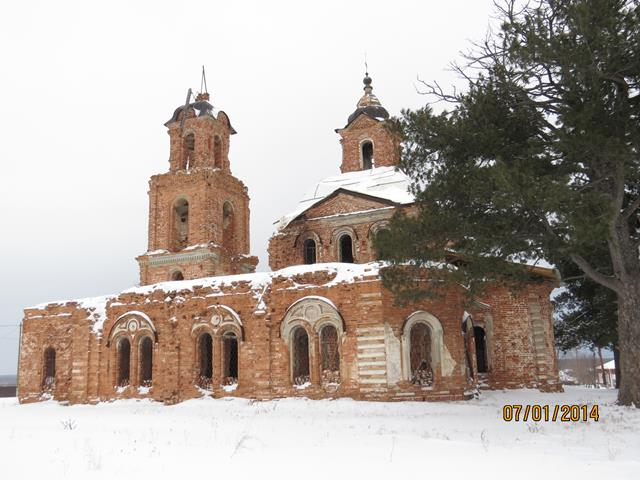 Krestovozdvizhensky temple in Lenyovskoye settlement in Rezhevskoy municipal okrug of Sverdlovsk oblast